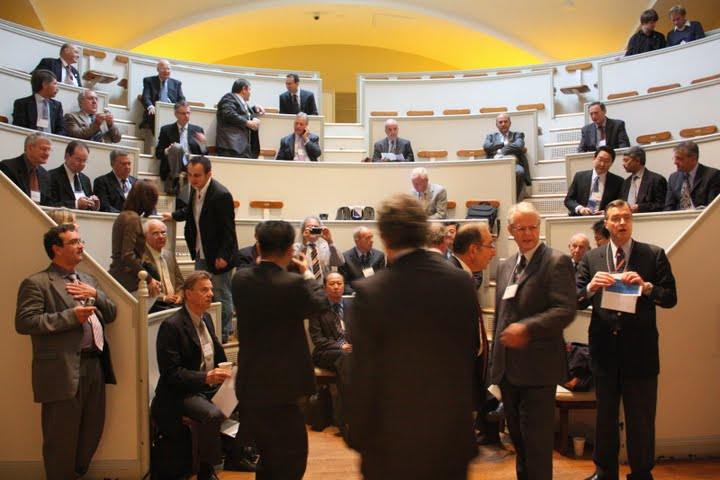 The Ether Dome is a surgical operating amphitheater in the Bulfinch Building at Massachusetts General Hospital in Boston.